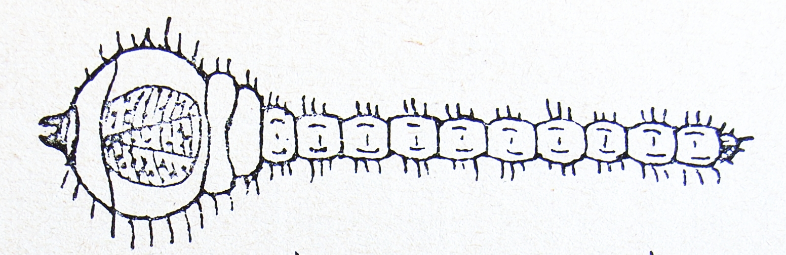 Larva of genus Chrysobothris